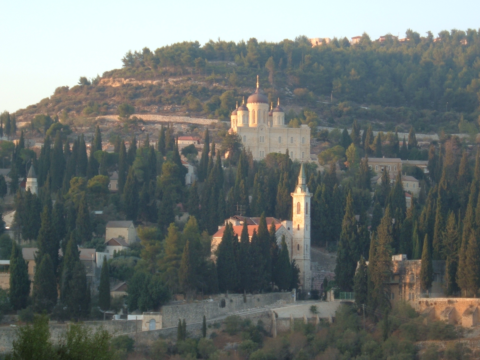 Israel, Jerusalem, Ein Karem Churches, Gorny Monastery with All Saints of Russia Cathedral (up) and Church of the Visitation (below).